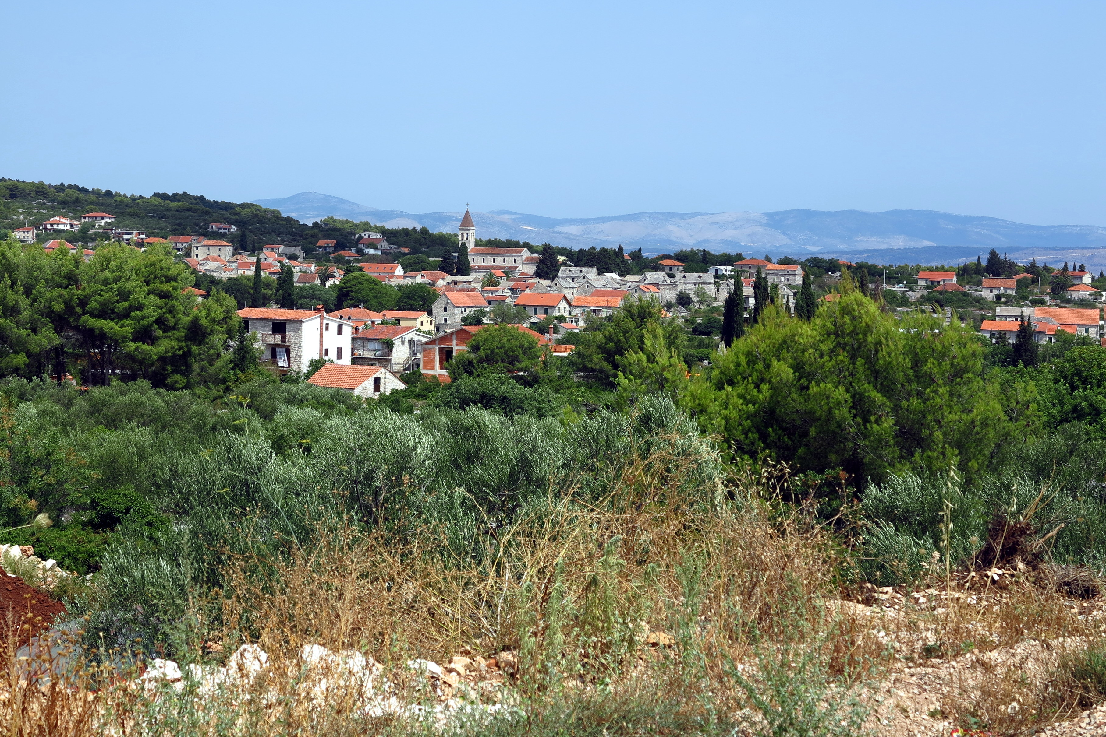 Grohote on the island Šolta / Croatia / Adriatic Sea. South side of the village. In the background, the Dinaric Alps.